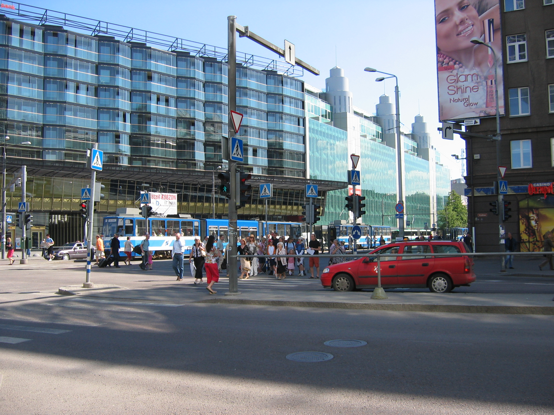 Intersection of Narva highway and Laikmaa street in Tallinn.